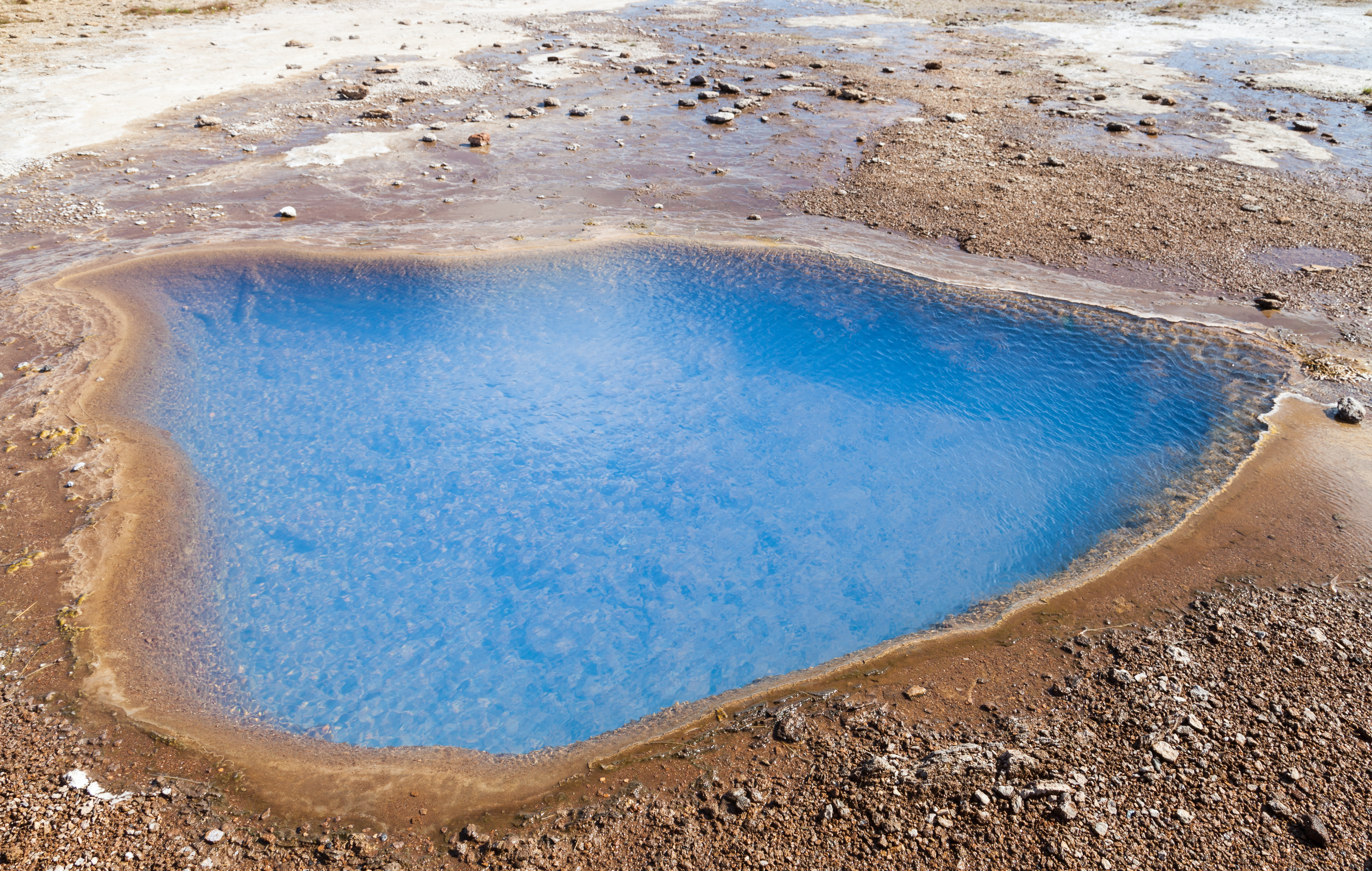 Blesi, Geysir Geothermal Field, Suðurland, Iceland